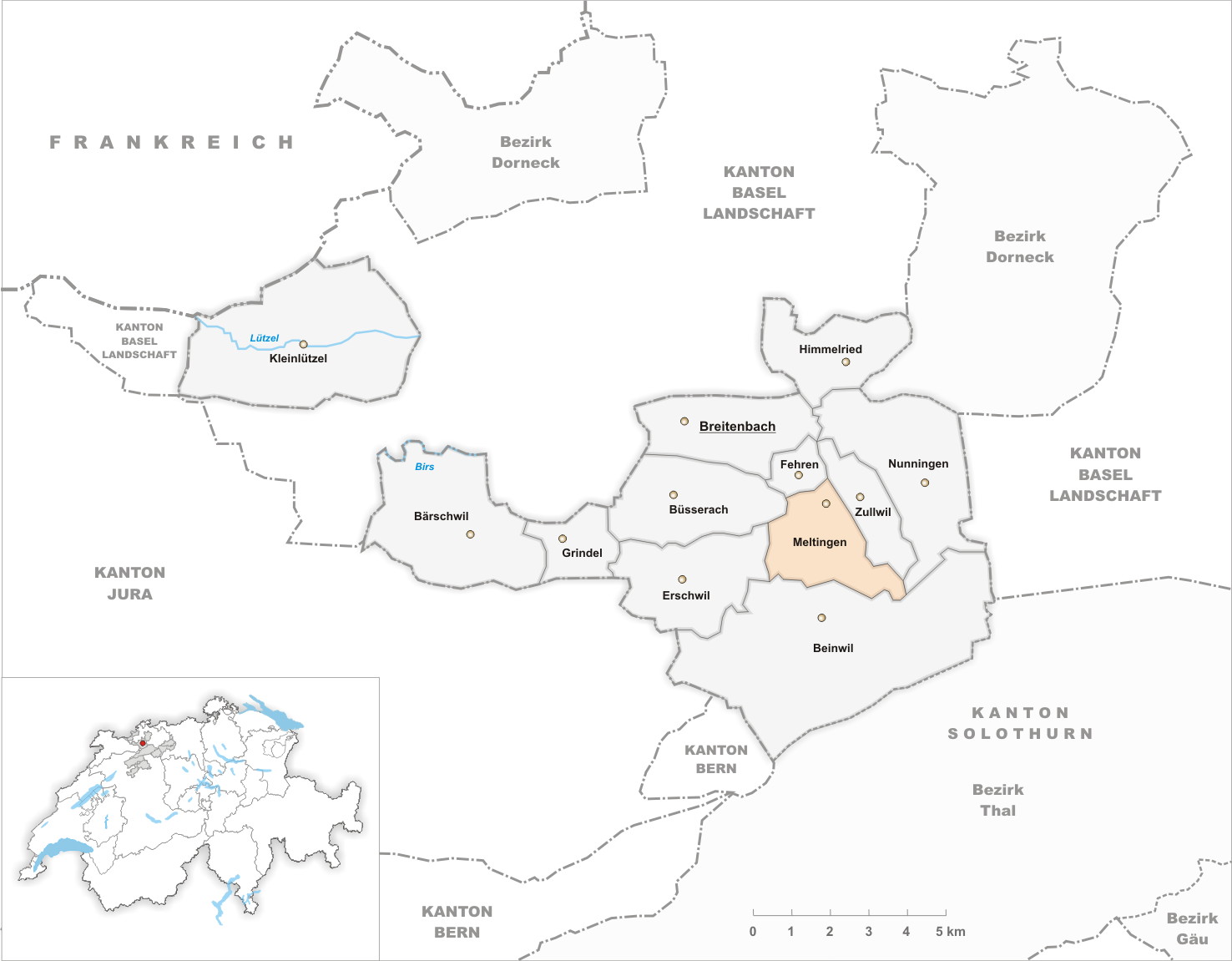 Municipality Meltingen